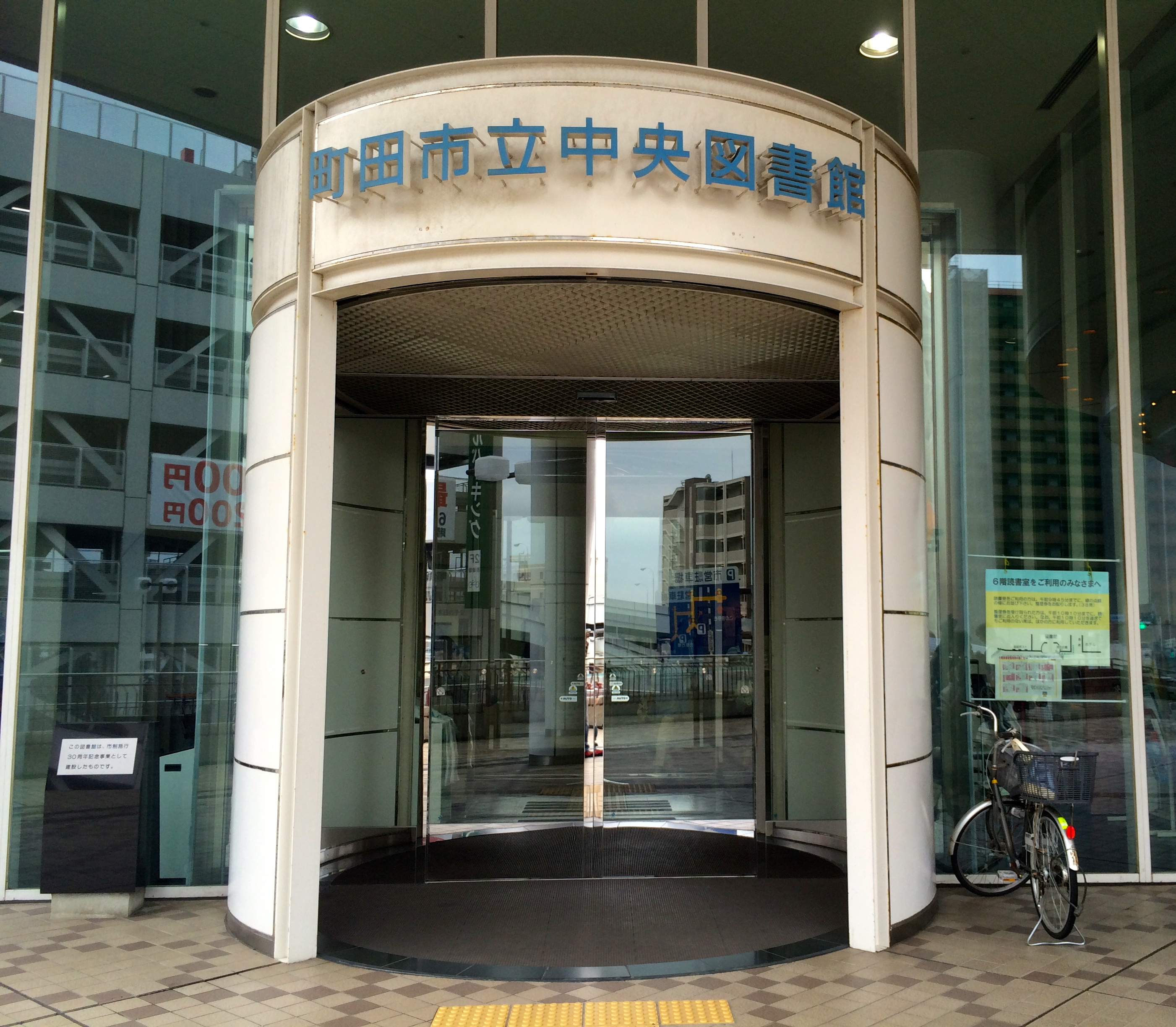 Entrance of Machida City Central Library Edited by iPhoto